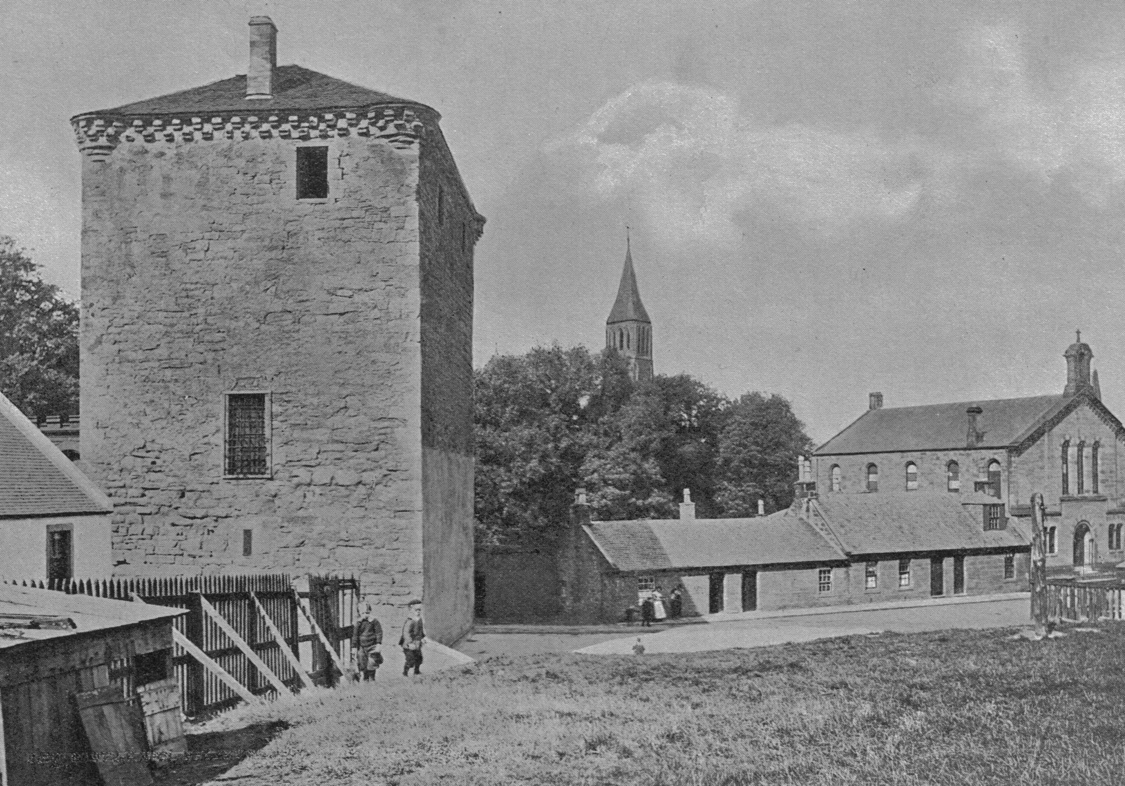 Galston and the Barr Castle in 1900. East Ayrshire, Scotland.